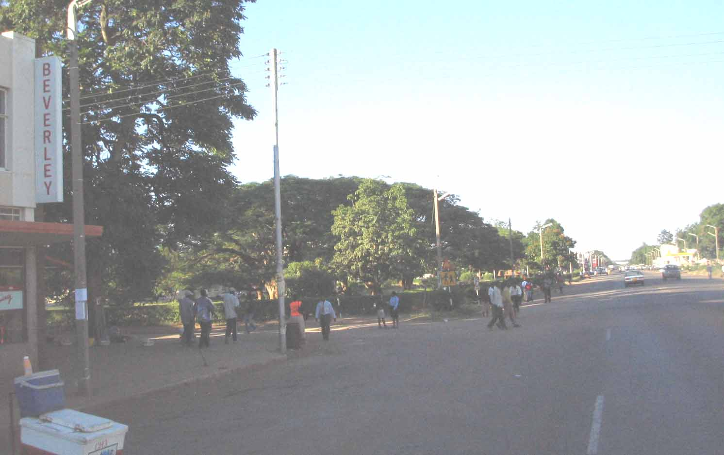 Chegutu, main street.